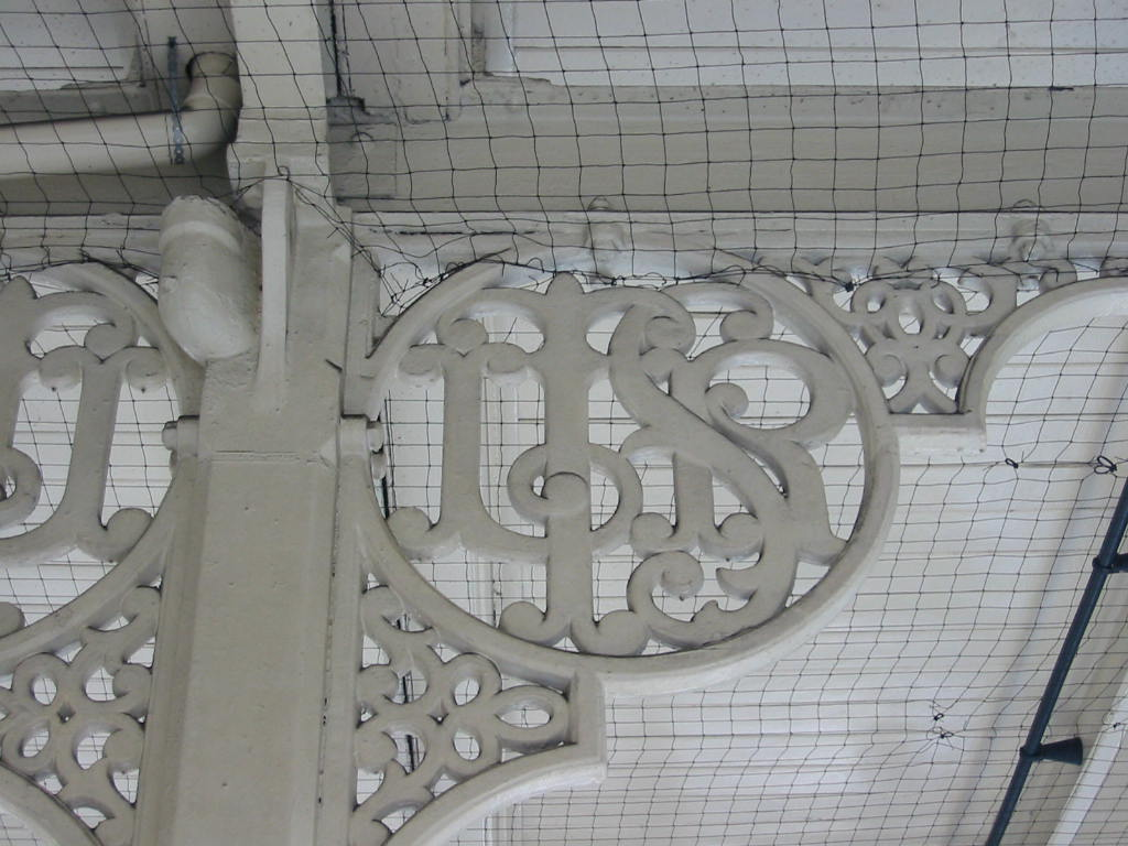 East Ham tube station, London. I took the picture myself.